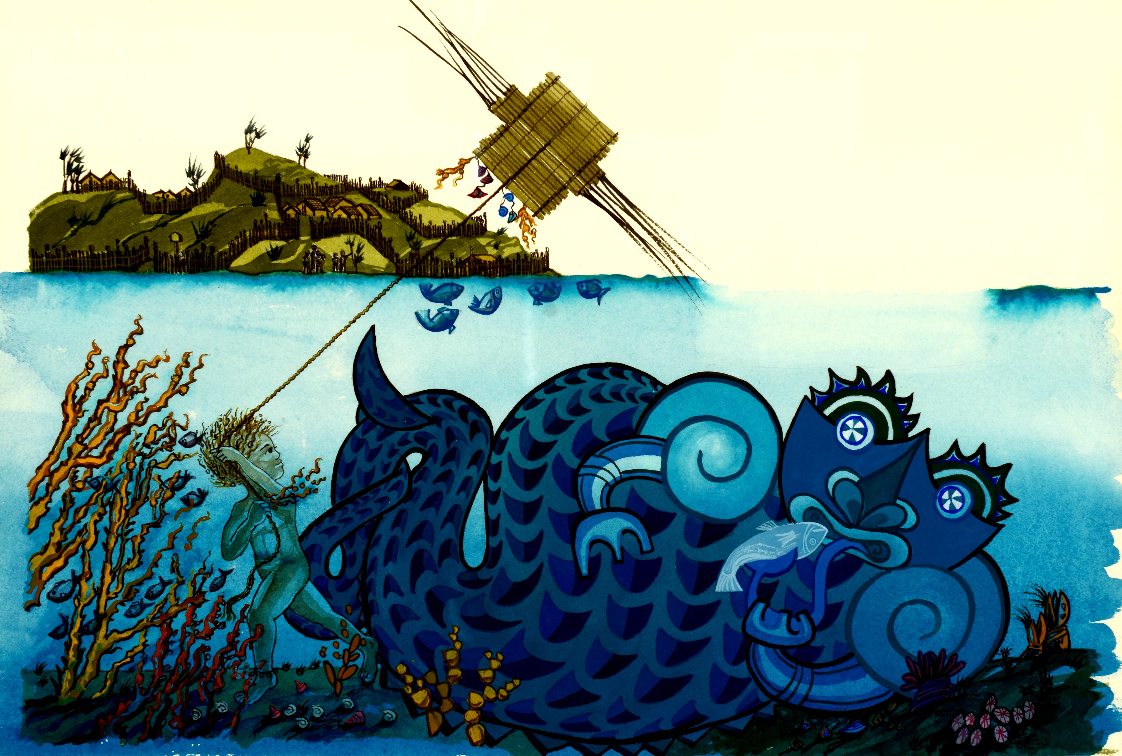 This image is part of the Learning Media Limited Te Pou Taki Kōrero educational resources transferred to Archives New Zealand. The work was either commissioned or created in the production of Te Wharekura publication for educational purposes. The art work created in 1988 is titled Nga Tamariki Iti o Aotearoa - Te Taitama/ The Boy from the Sea by Clare Bowes. The theme of this year’s festival, ‘kaitiakitanga’ (guardianship), gives us an opportunity to think about our role as guardians. For Māori, the atua (gods) were the first guardians. They included Tāne, guardian of the forests and birds, and Tangaroa, guardian of the sea and all its abundant life forms. Māori also have kaitiaki (guardians) in the form of birds and other animals, which protect us by warning us of danger. Archives New Zealand, Te Rua Mahara o te Kāwanatanga is the official guardian of New Zealand’s public archives. We gather, store and protect an extremely wide range of material. Our holdings include the originals of the Treaty of Waitangi, government documents, maps, paintings, photographs and film. Archives New Zealand works to ensure records of long-term value are kept permanently and people have access to these records. Archives Reference: ADCT 699 W5428 30/2 Matariki at Archives New Zealand